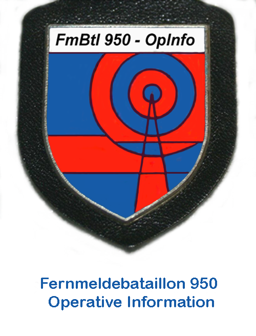 950th Signal Battalion